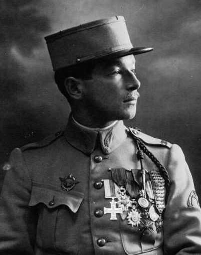 French aviator René Fonck (1894-1953) with his medals in 1918.